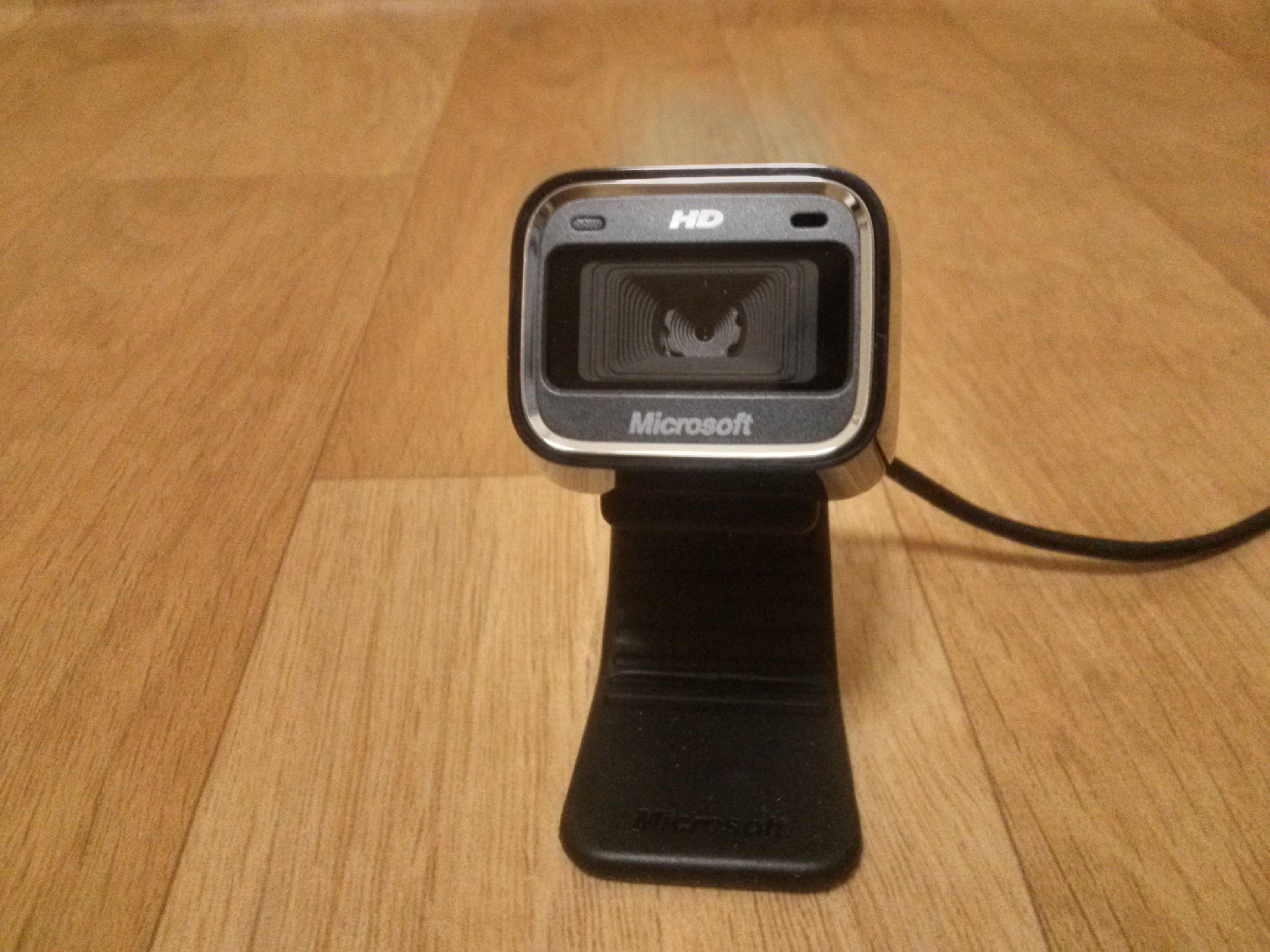 Front of LifeCam HD-5000